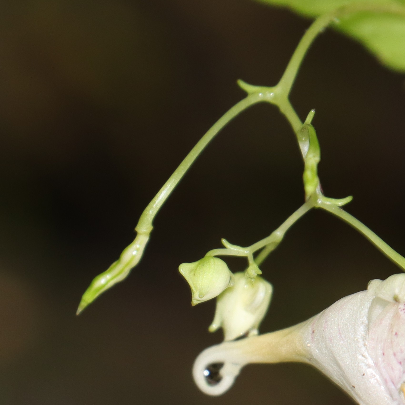 Impatiens hypophylla var. microhypophylla, in Mount Kisokoma, Kiso, Nagano prefecture, Japan.